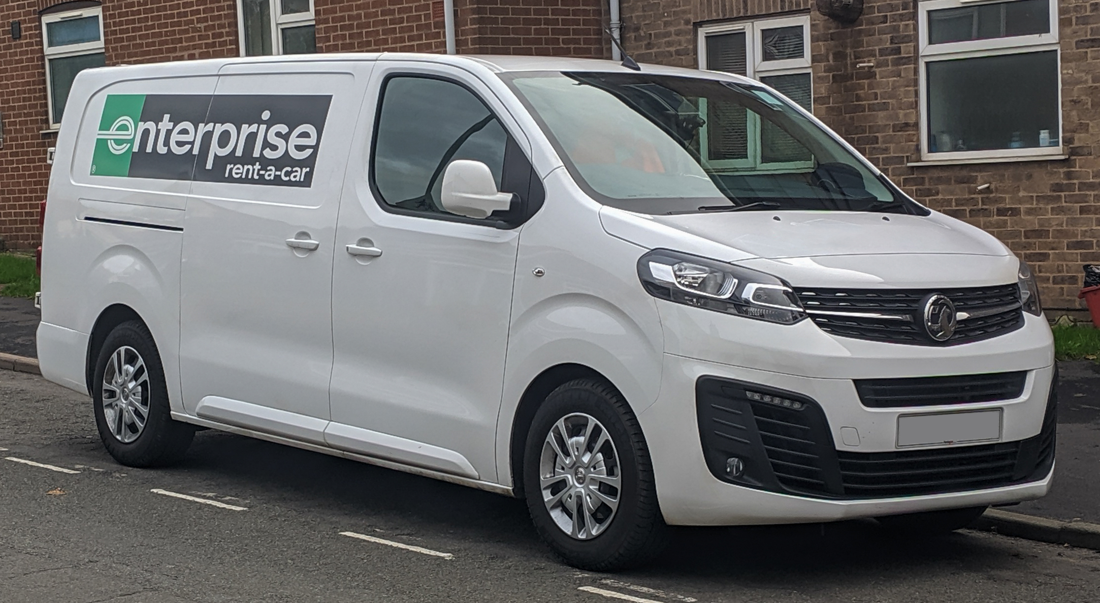 2019 Vauxhall Vivaro 3100 Sportive 2.0 Front Taken in Warwick